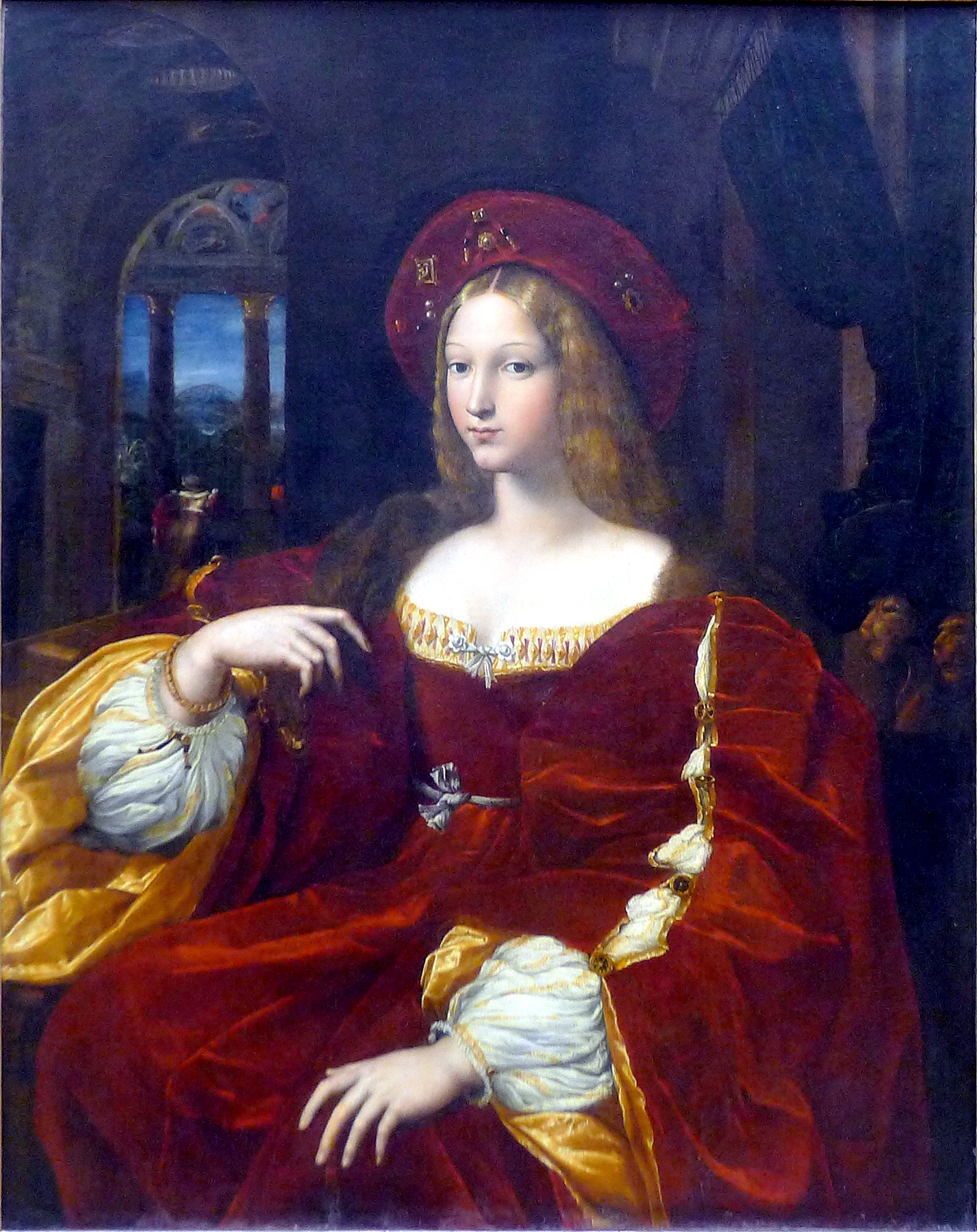 Portrait of Doña Isabel de Requesens (1500-1577) as vice empress of Naples